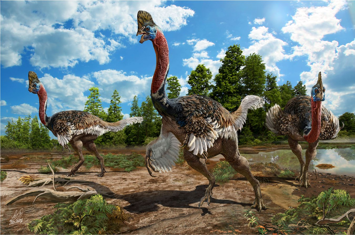 The living scene of Corythoraptor jacobsi gen. et sp. nov. (Drawn by Zhao Chuang).